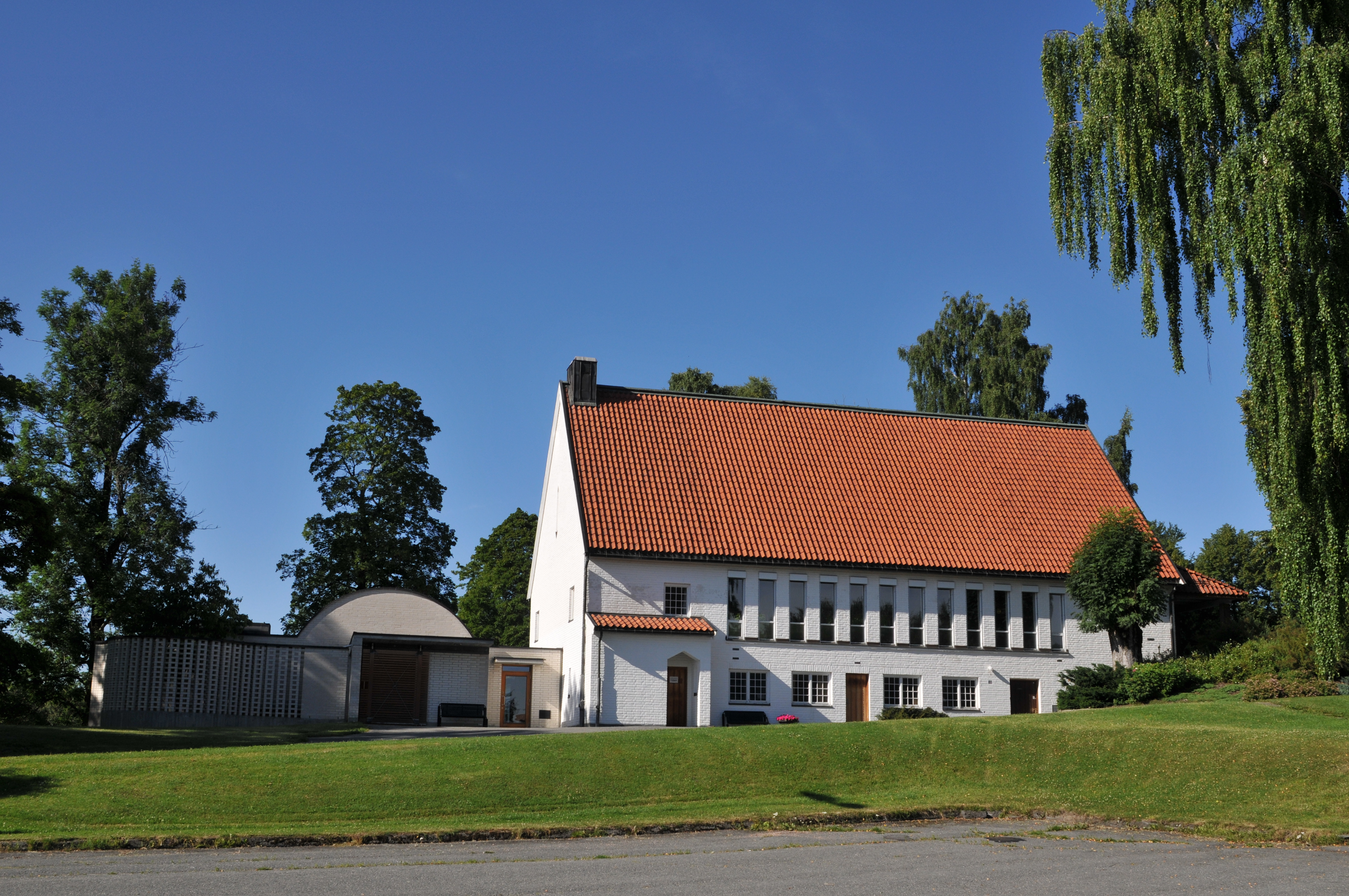 Asker krematorium, Asker, Norway - Architects Gudolf Blakstad and Herman Munthe-KaasNorsk bokmål: Asker krematorium, Asker, Norge - Arkitekter Gudolf Blakstad og Herman Munthe-Kaas